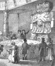 "Teoyamiqui" (Coatlicue), crop of an engraving of William Bullock's Ancient Mexico exhibition.